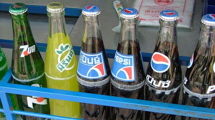 Pepsi in Thailand.